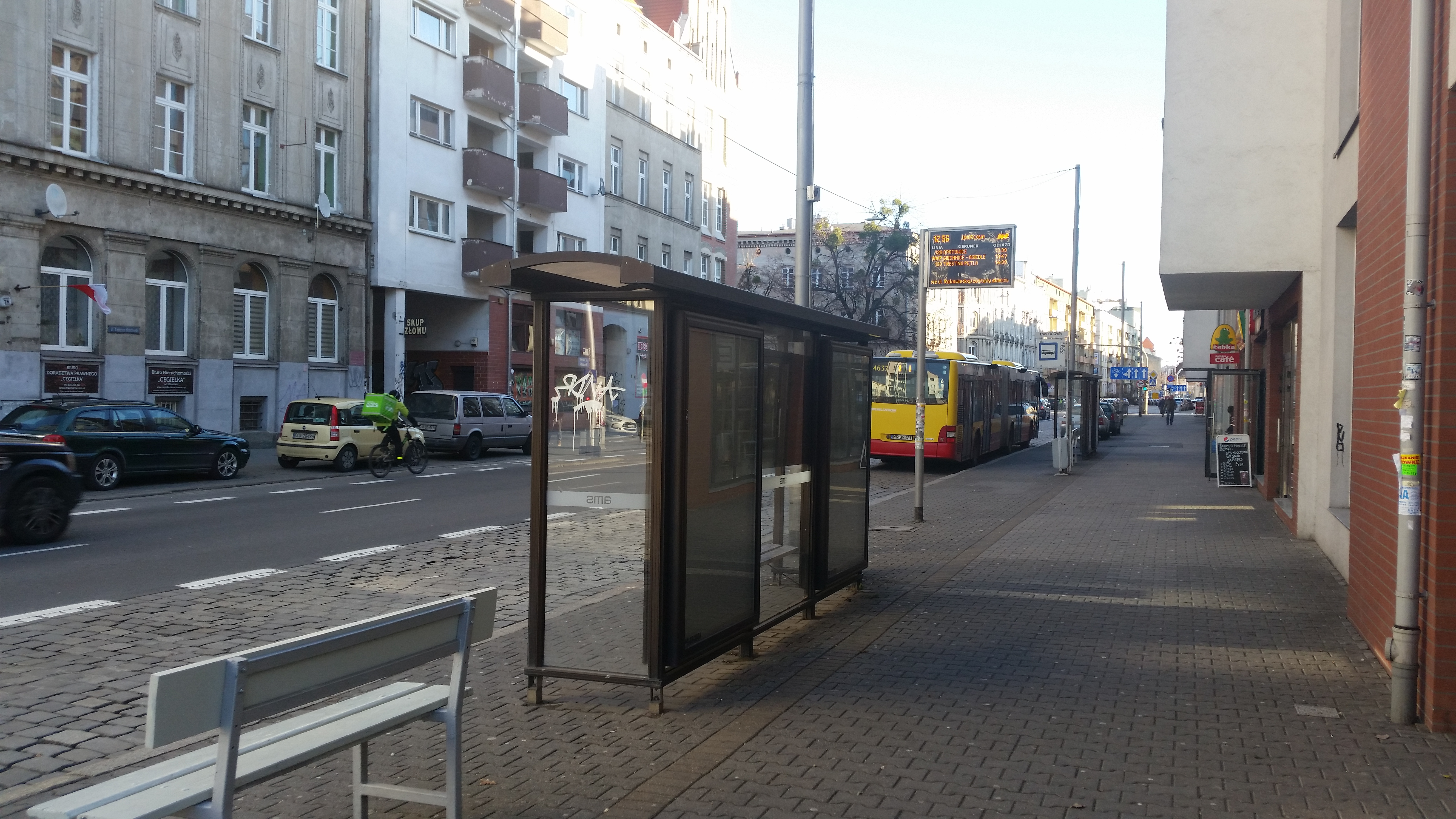 Bus stop near Kościuszki 83 street, Wroclaw, Poland